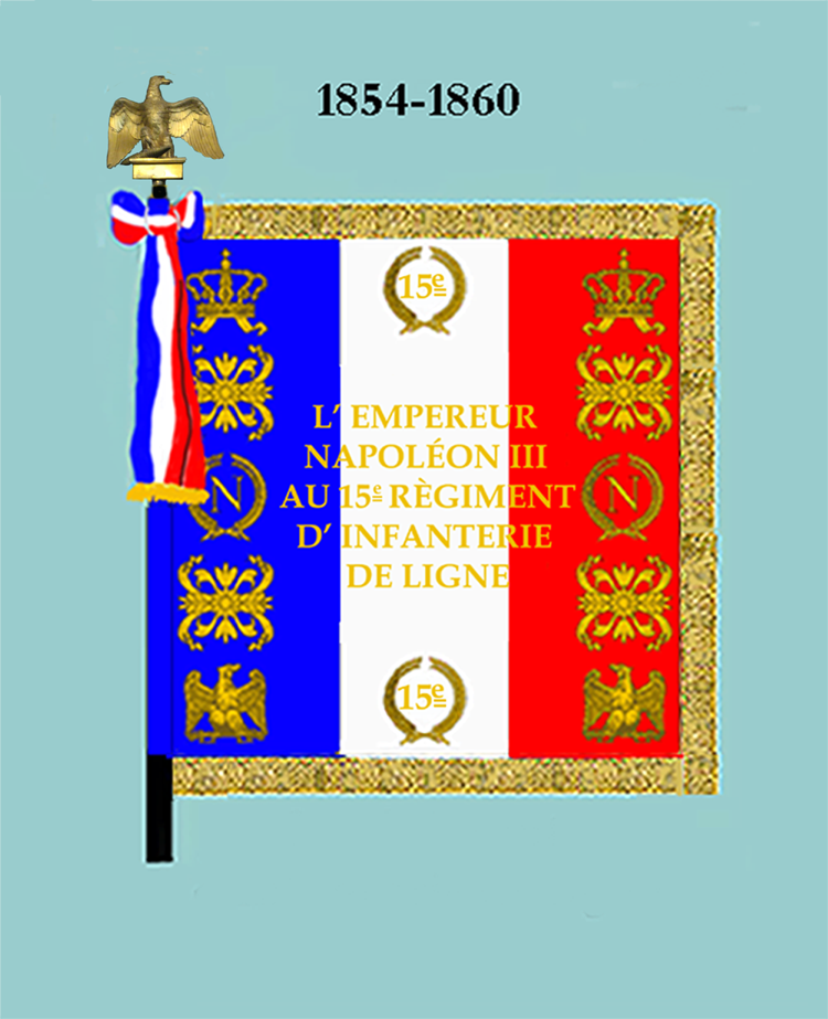 Drapeau du 15e régiment d'infanterie 1854 avers